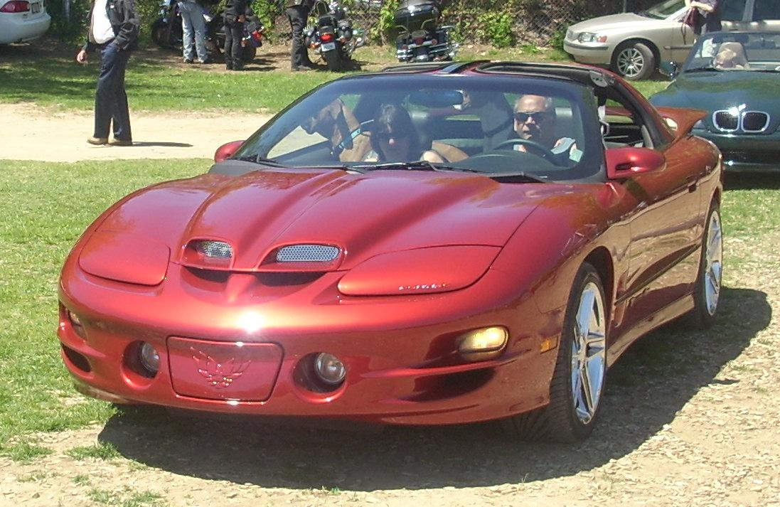 1999 Pontiac Trans Am photographed at the 2008 Hudson British Car Show.